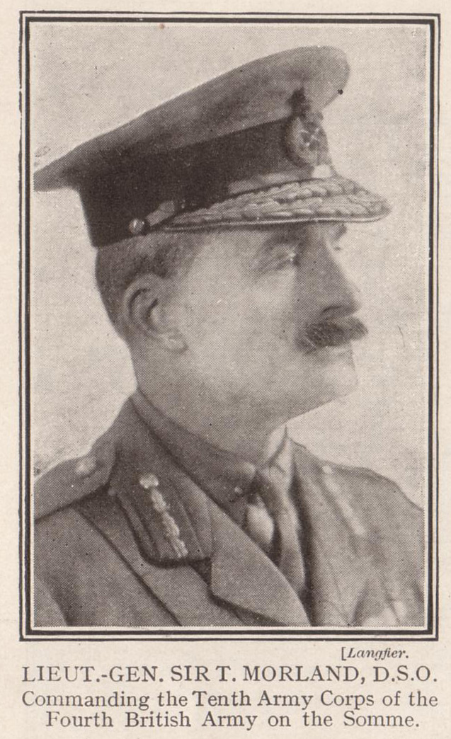 Lieutenant-General Thomas Morland